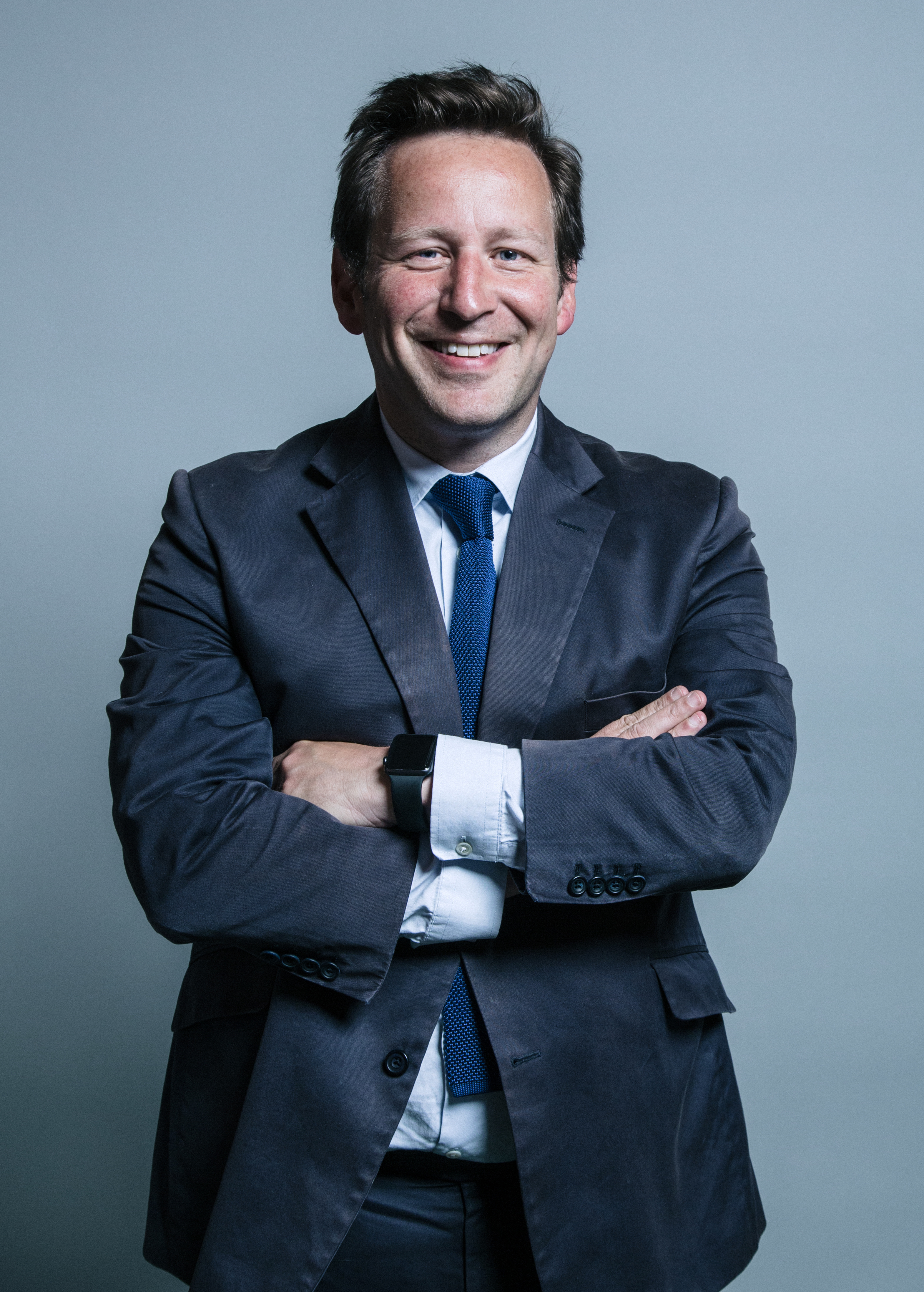 Official portrait of Mr Edward Vaizey